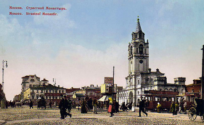 Strastnoy Monastery in Moscow. Old pre-1917 postcard Flickr data on 2011-08-13 Tags: Strastnoy Monastery, Moscow, postcard License: CC BY-SA 2.0 User: paukrus Ruslan